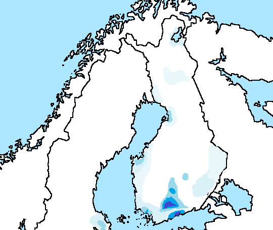 Roma in finland